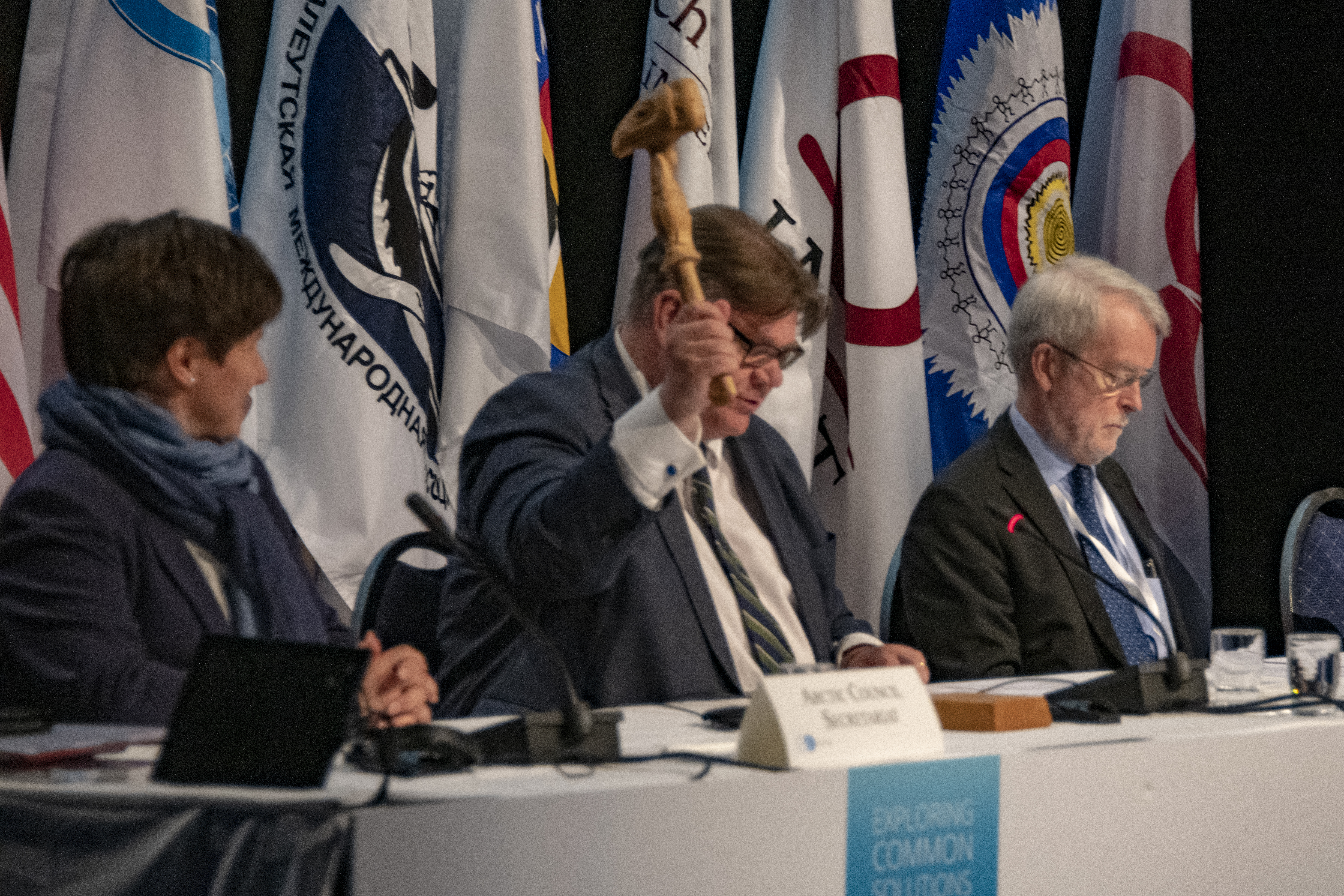 Finnish Foreign Minister Timo Soini at the Arctic Council Ministerial Meeting in Rovaniemi, Finland, on May 7, 2019. [State Department Photo by Ron Przysucha/ Public Domain]